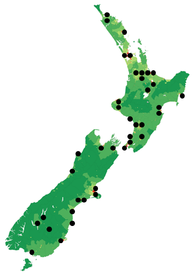 This is a map of Newstalk ZB frequencies, and New Zealand population density.